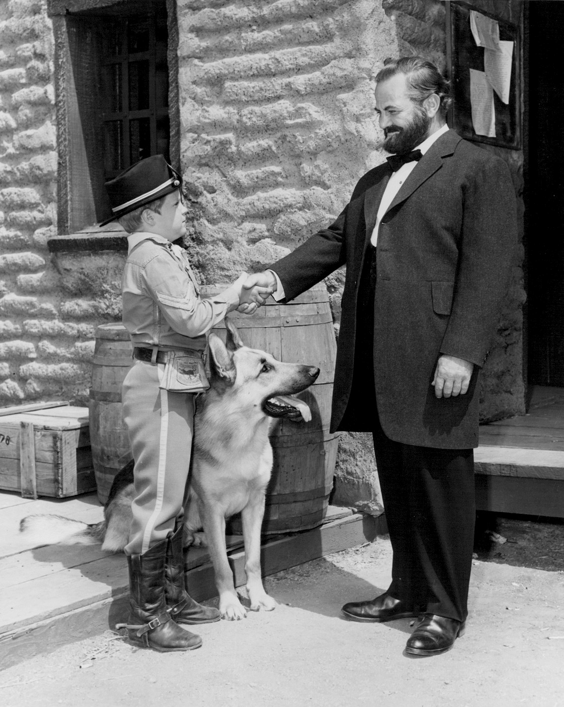 Photo of Paul Birch as President Grant, Lee Aaker as Rusty and Rin Tin Tin from the television series The Adventures of Rin Tin Tin. The item has no copyright markings on it as can be seen in the links above.